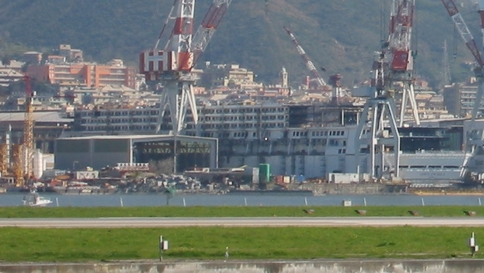 Costa Pacifica (left) and Carnival Splendor under construction at Sestri Ponente.